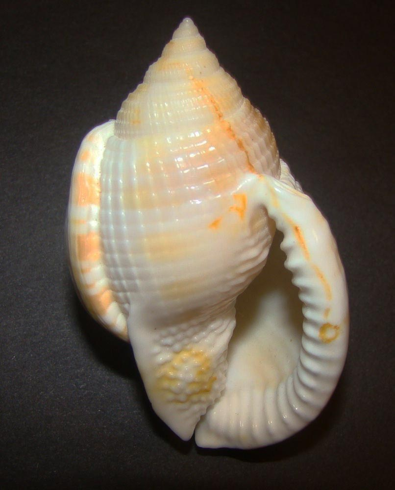 A photo of apertural view of the shell of Semicassis granulata, The Scotch Bonnet.